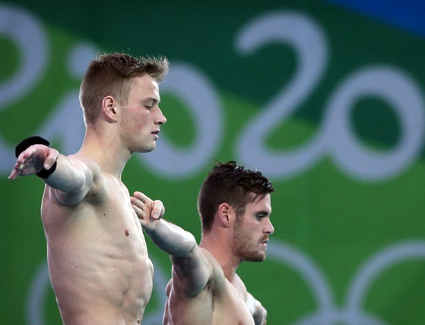 Diving at the 2016 Summer Olympics – Men's synchronized 10 metre platform - Steele Johnson and David Boudia